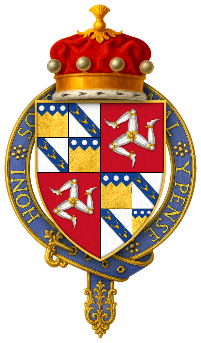 Sir Thomas Stanley, 1st Baron Stanley, KG HOPE, W. H. St. John, The Stall Plates of the Knights of the Order of the Garter 1348 – 1485: A Series of Ninety Full-Sized Coloured Facsimiles with Descriptive Notes and Historical Introductions, Westminster: Archibald Constable and Company LTD, 1901. “ Sir Thomas Stanley, Lord Stanley, K.G. 1457-1458…the arms, quarterly: 1 and 4, gold on a chief indented azure three silver plates (for Lathom), quartering silver on a bend azure three stags' heads gold (for Stanley); 2 and 3, gules three legs armed and flexed in triangle (for the Kingdom of Man)... ” Lord Stanley's stall plate remains intact within the twenty-fifth stall, on the Sovereign's side of the chapel.